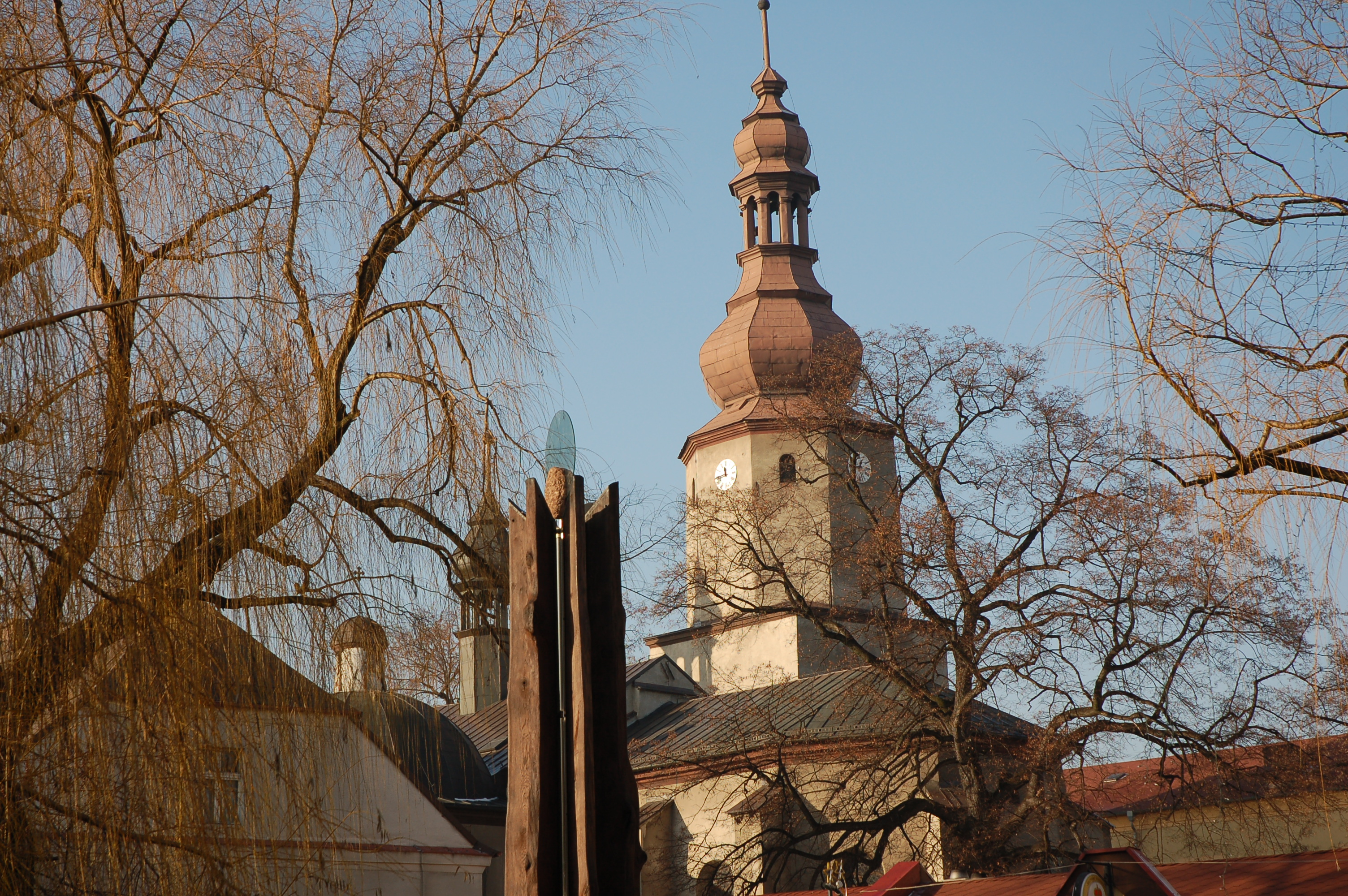 Lubliniec Pl. M.Kopernika